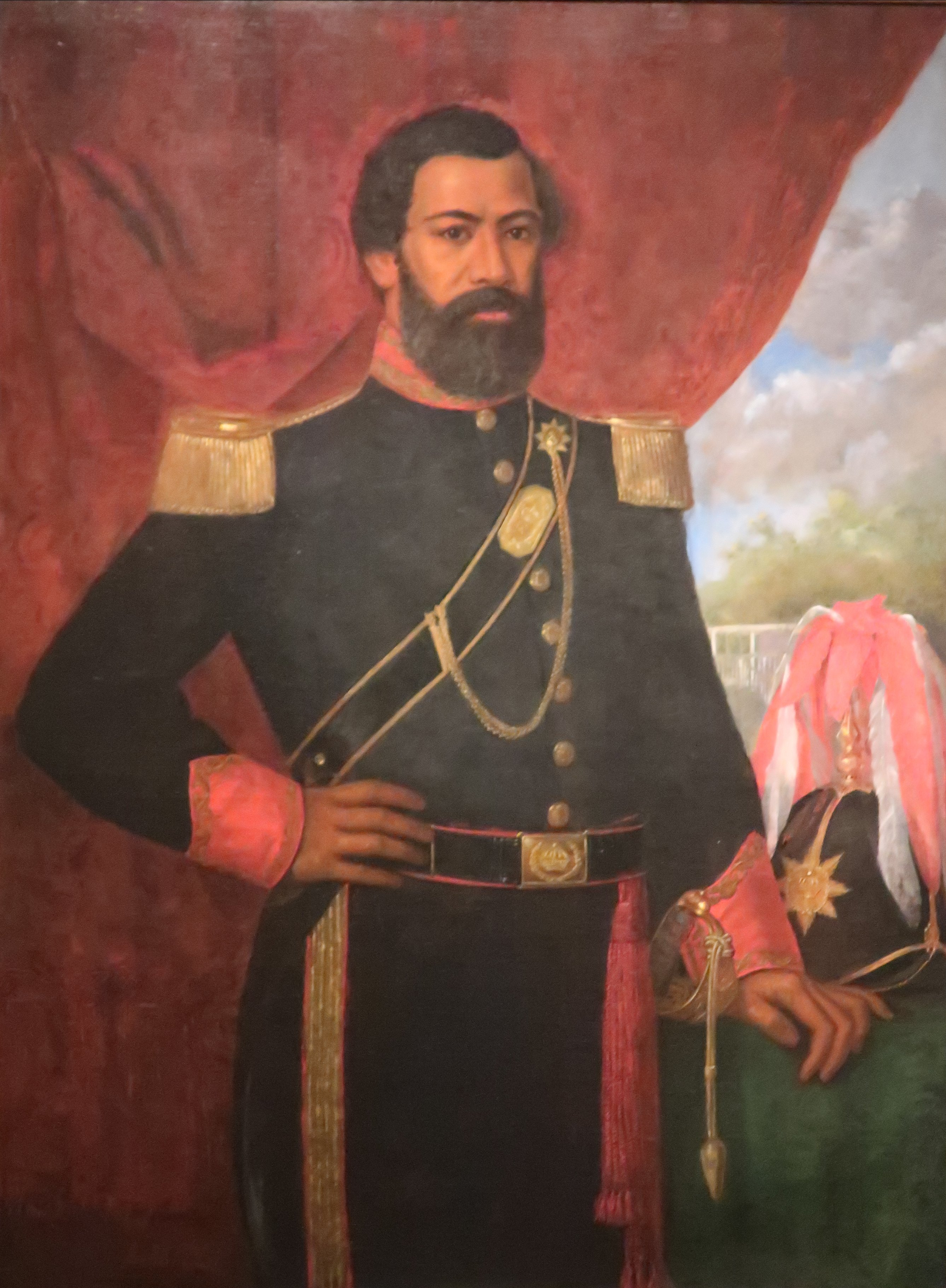 Portrait of Levi Haalelea, by Enoch Wood Perry, Jr., c. 1864, oil on canvas, Hawaii State Archives